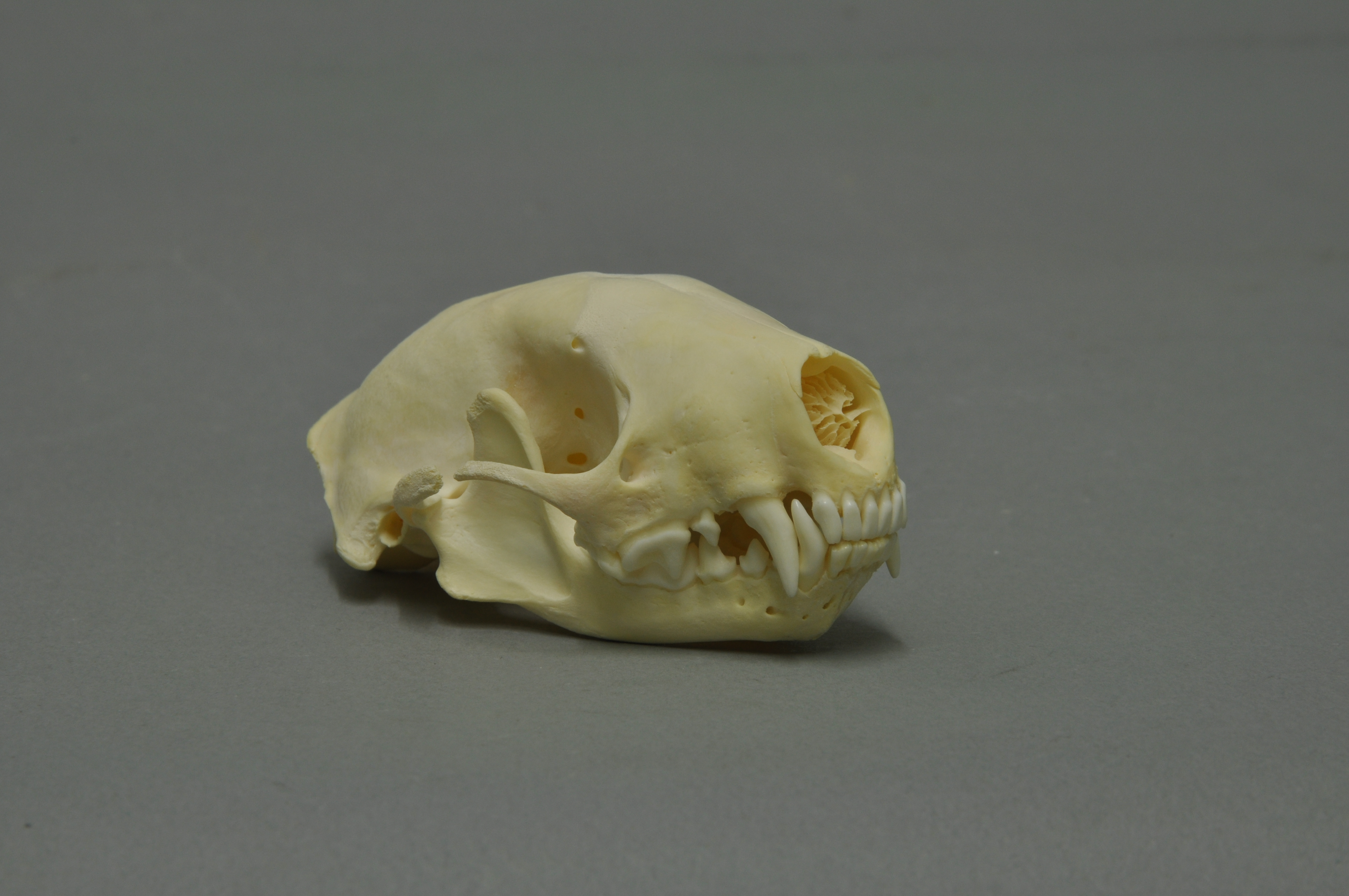 Striped skunk Mephitis mephitis , skull, Coll. Museum Wiesbaden